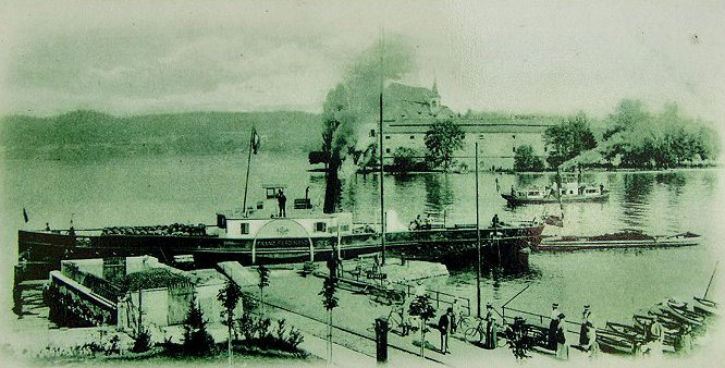 Landing place on Lake Attersee